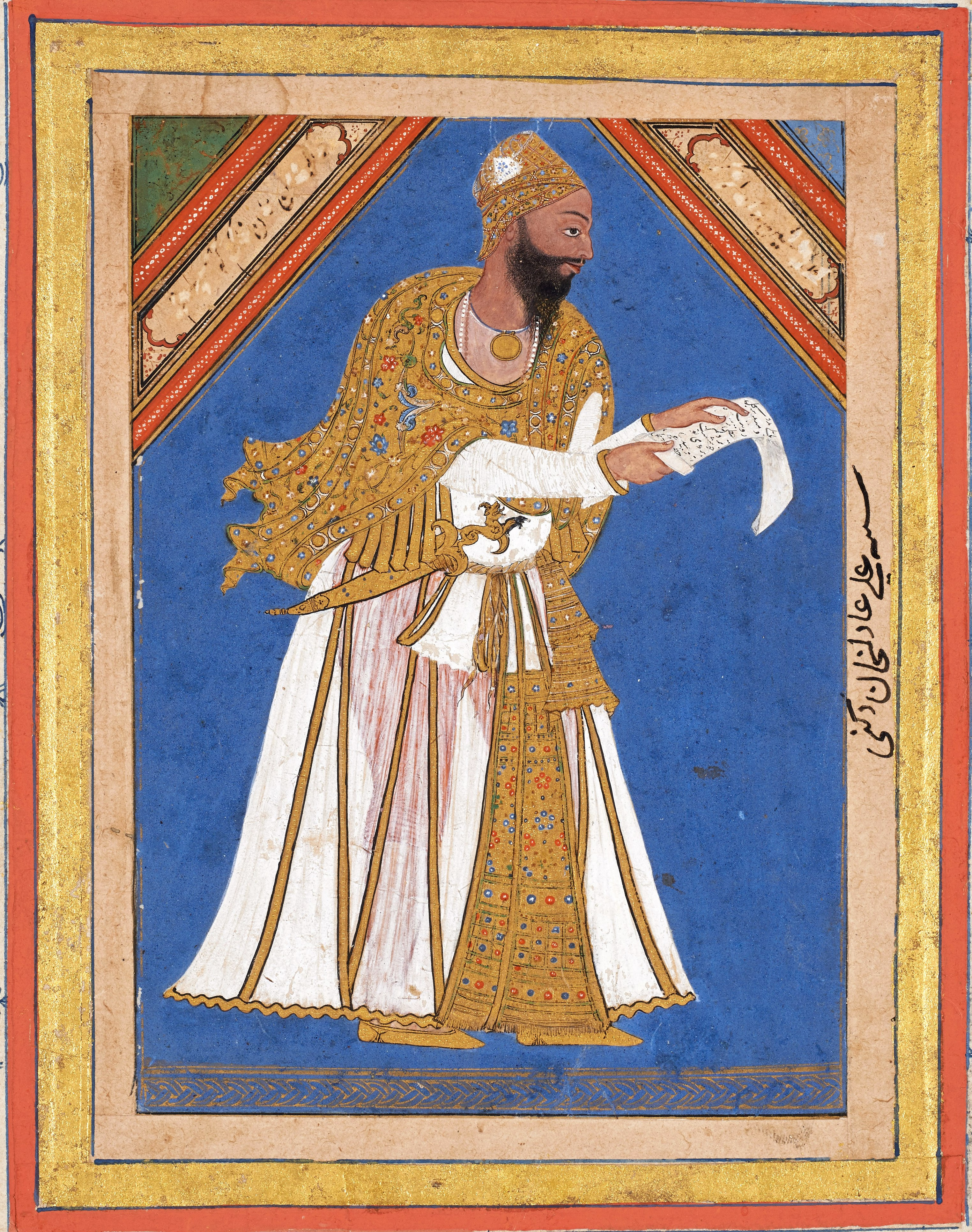 This is a 16th century painting of Ali Adil Shah I, the Sultan of Bijapur. (1558 – 1580)